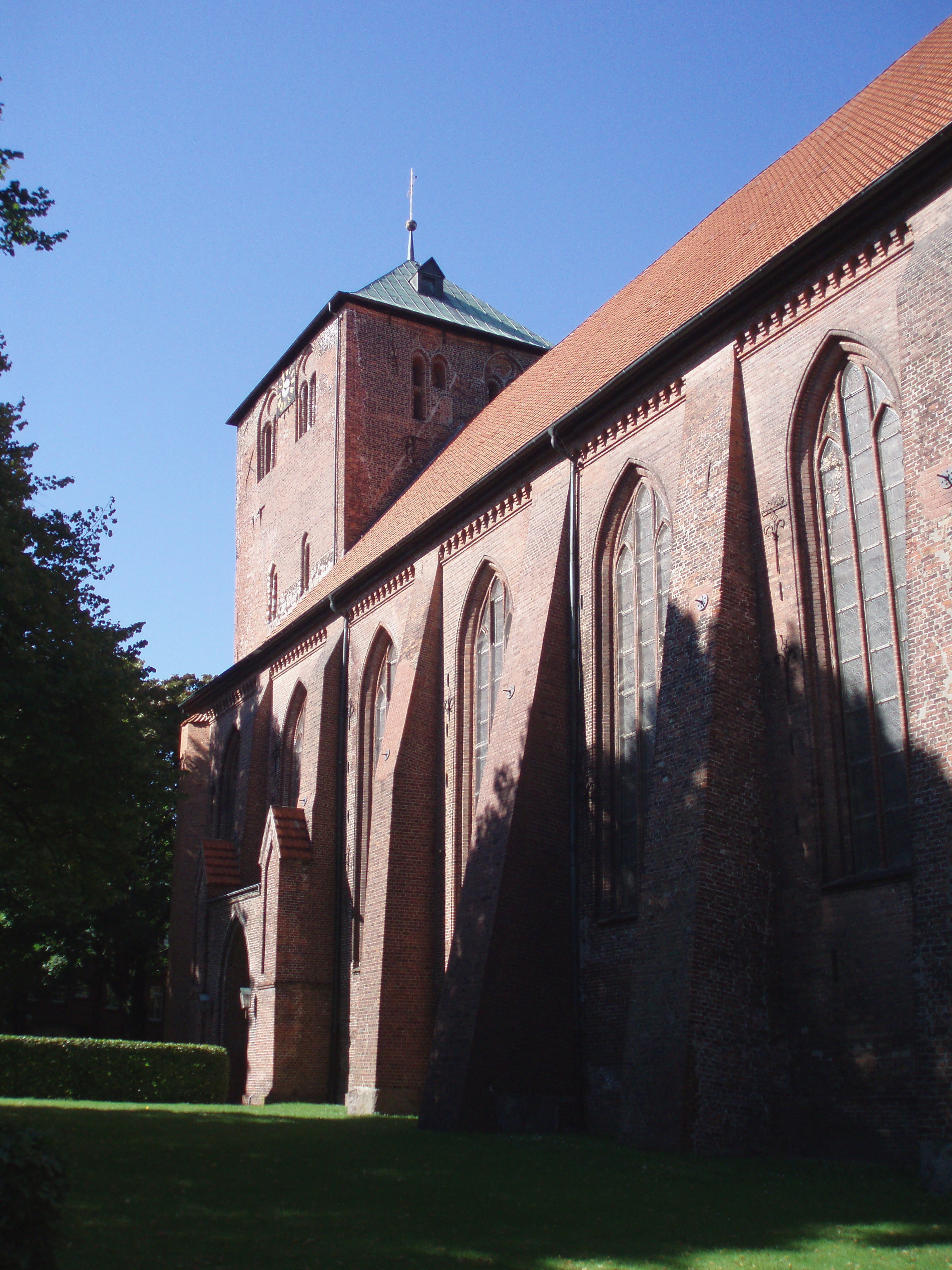 South facade of St. Wilhadi.